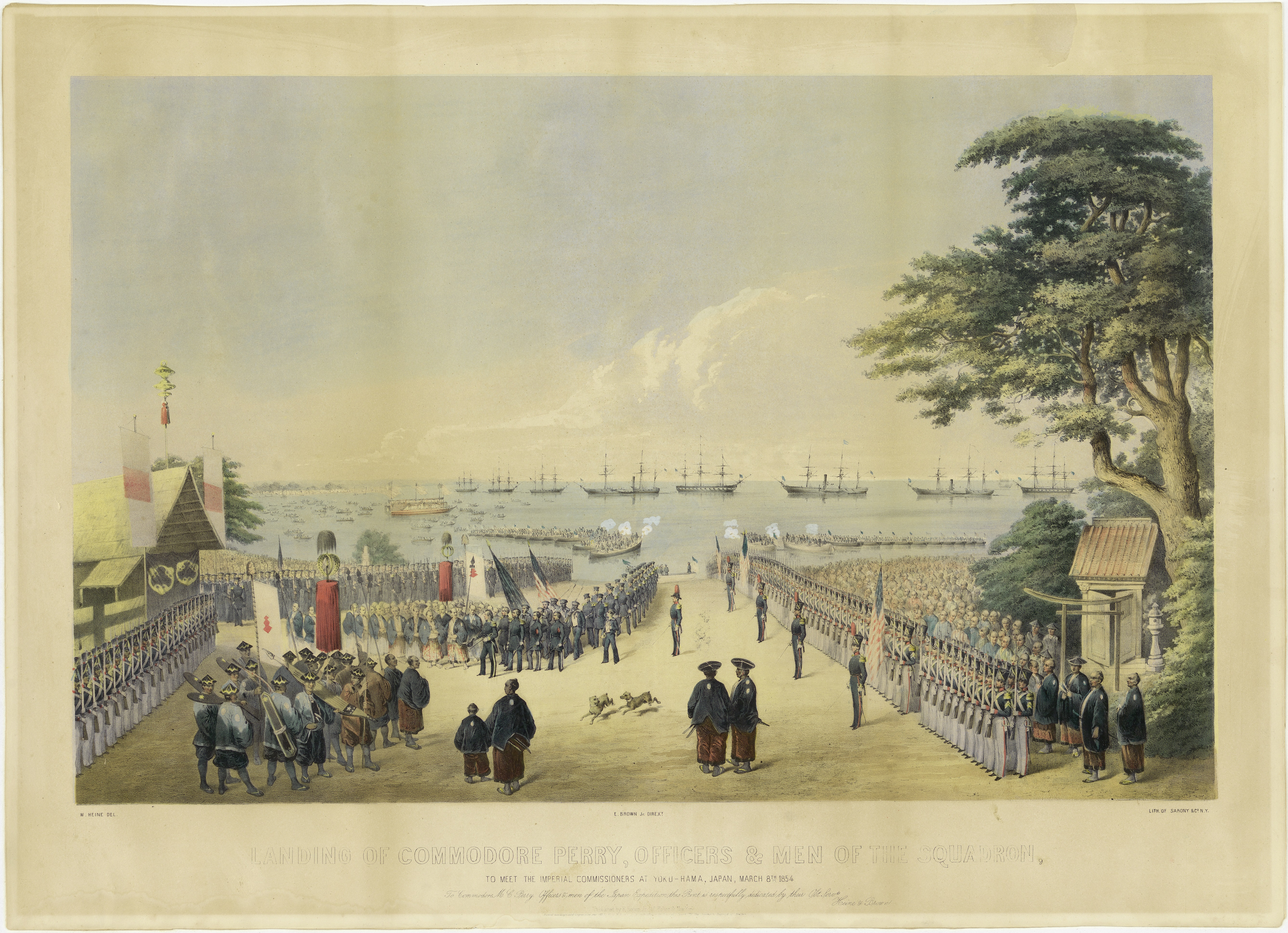 Commodore Matthew C. Perry's visit of Kanagawa, near the site of present-day Yokohama on March 8, 1854. Lithography. New York: E. Brown, Jr.